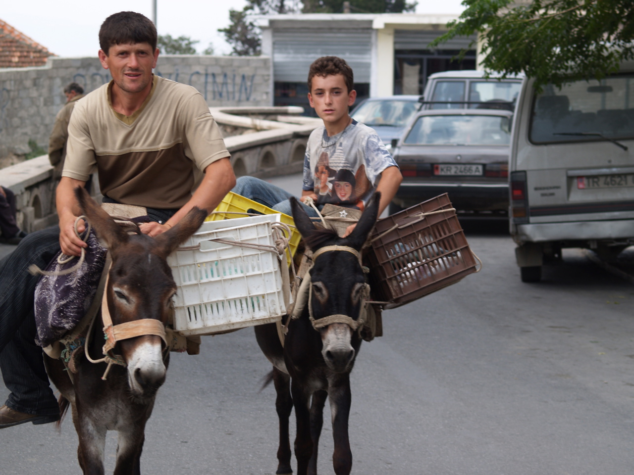 Donkeys on the road in Kruja, Albania